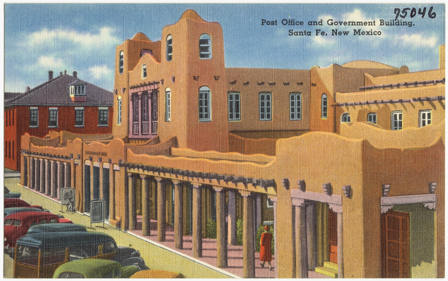 File name: 06_10_015690 Title: Post Office and Government building, Santa Fe, New Mexico Created/Published: Alfred Mc Garr Adv. Ser., Albuquerque, N. M.; Tichnor Bros. Inc., Boston, Mass. Date issued: 1930 - 1945 (approximate) Physical description: 1 print (postcard) : linen texture, color ; 3 1/2 x 5 1/2 in. Genre: Postcards Subjects: Post offices; Government facilities Collection: The Tichnor Brothers Collection Location: Boston Public Library, Print Department Rights: No known restrictions Flickr data on 2011-08-18: Camera: Epson Exp10000XL10000 Tags: postcard, tichnor brothers, New Mexico License: CC BY 2.0 User: Boston Public Library